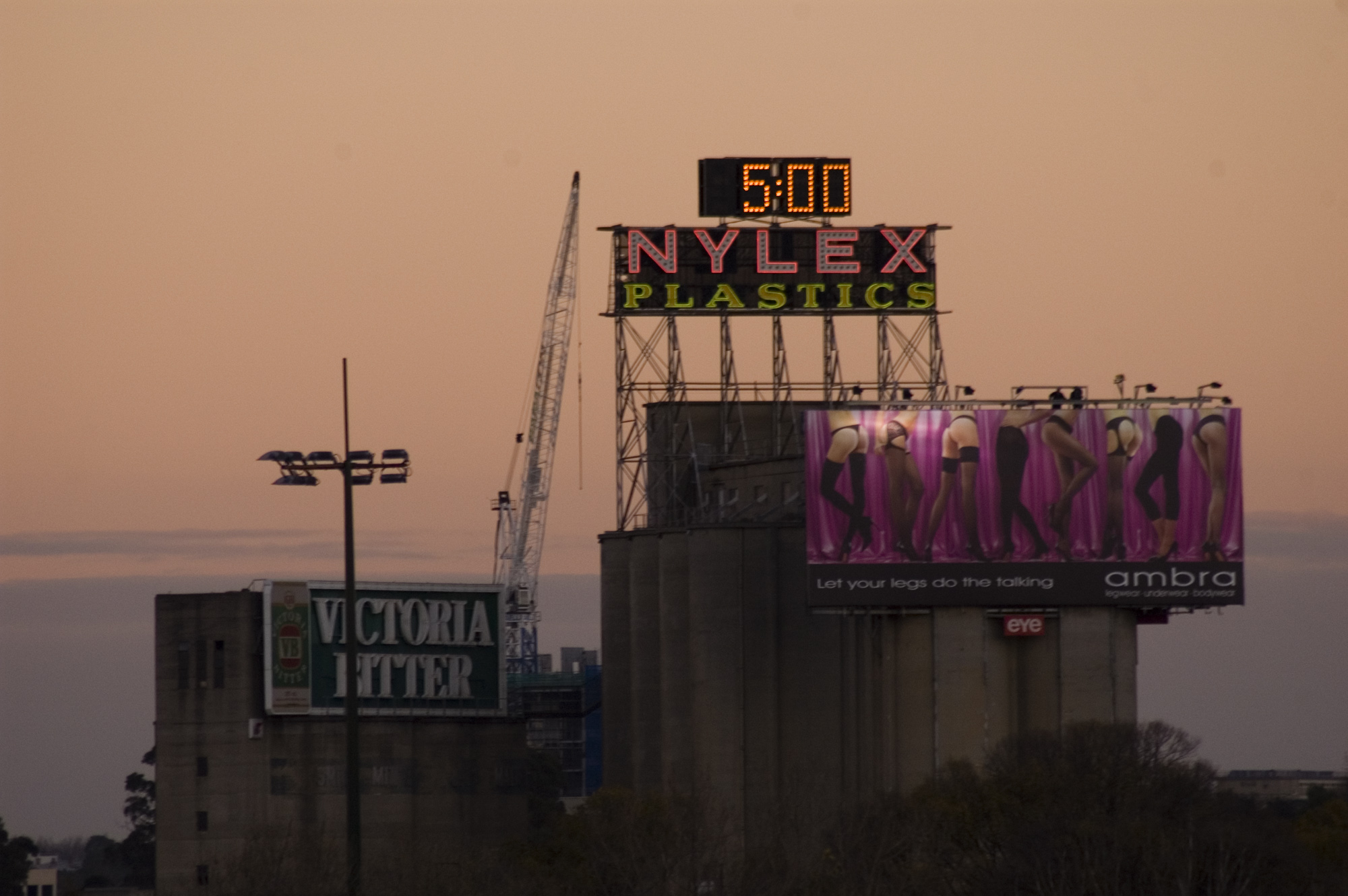 Nylex Clock, Melbourne. Taken from footbridge between the MCG and Vodafone Arena.